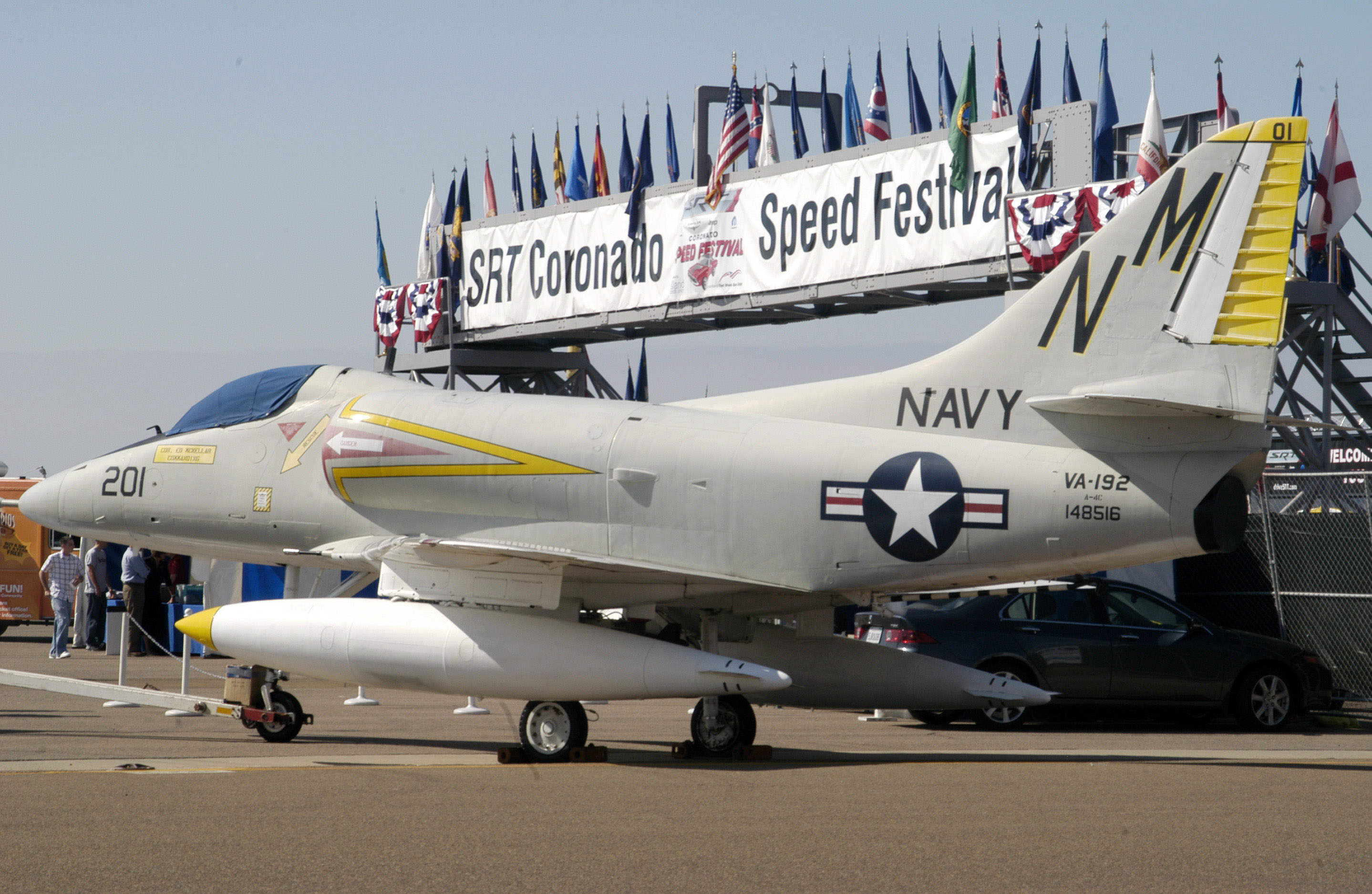 A Douglas A-4C Skyhawk on display at the main entrance of the 2006 Coronado Classic Speed Festival. The festival, held 7/8 October 2006, featured more than 225 of the world's top vintage racing machines competing for honors on a 1.6-mile (3.2 km) race course built on the runways and taxiways of Naval Air Station North Island (California, USA). The plane is BuNo 148516, painted in the colours of attack squadron VA-192 Golden Dragons, which made four deployments (flying the A-4C) as part of Attack Carrier Air Group Nineteen (CVW-19) (tail code "NM") aboard the aircraft carrier USS Bon Homme Richard (CVA-31) between April 1961 and January 1966. Before 1963 the A-4C was designated A4D-2N and before December of the same year the Carrier Air Wing had been designated Carier Air Group (CVG).